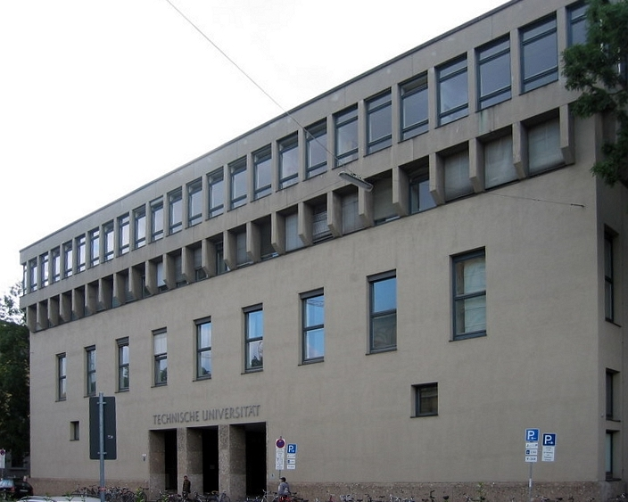 TU München Haupteingangsgebäude von Prof. Johannes Ludwig